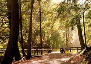 Photo of Victoria Park URL: Taken: September 2004 Authors own work